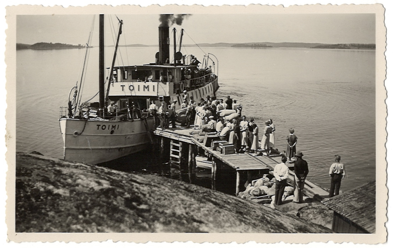 Steamship S/S Toimi in Kemiö, Finland